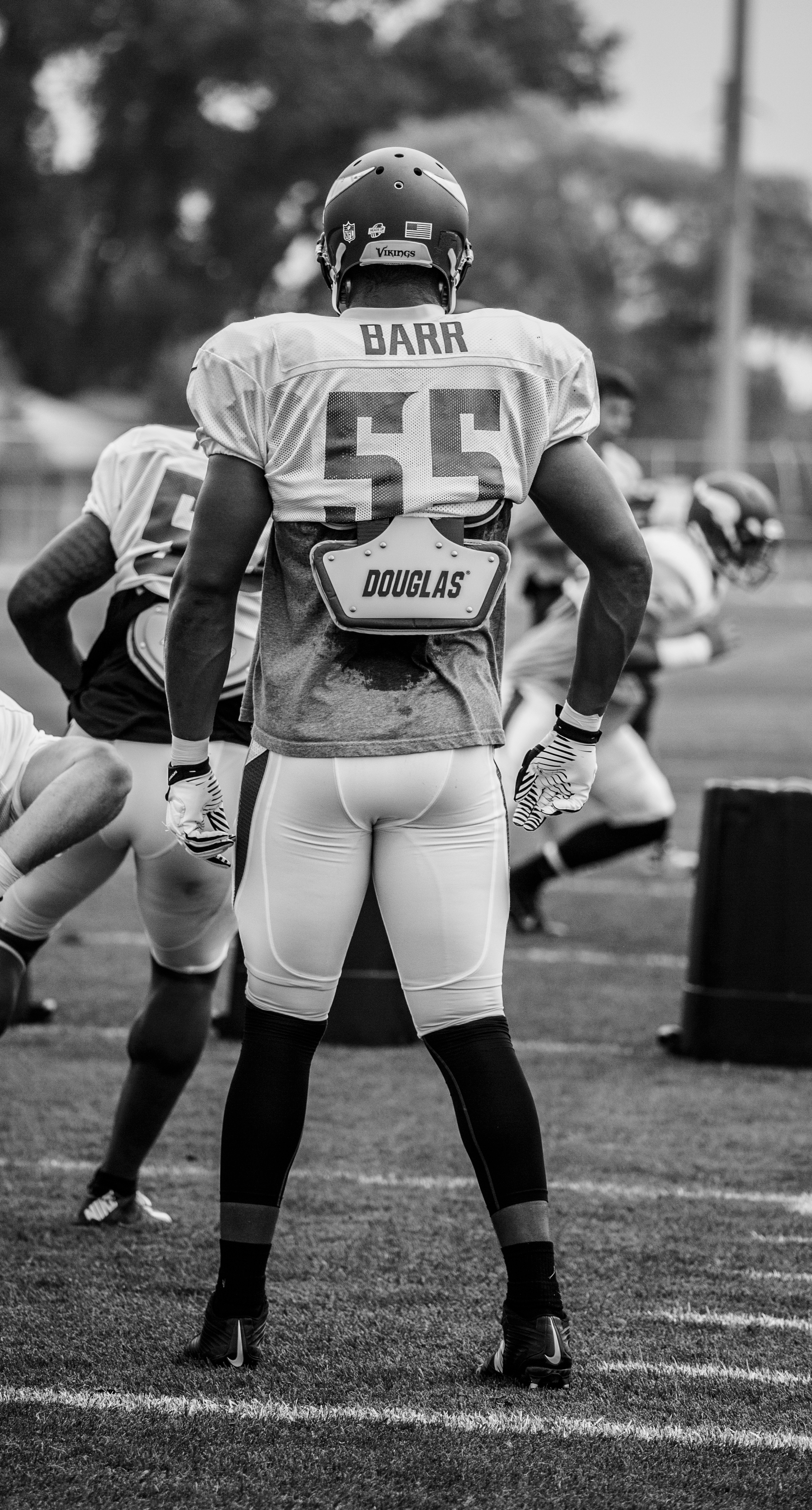 Minnesota Vikings linebacker Anthony Barr during 2014 training camp